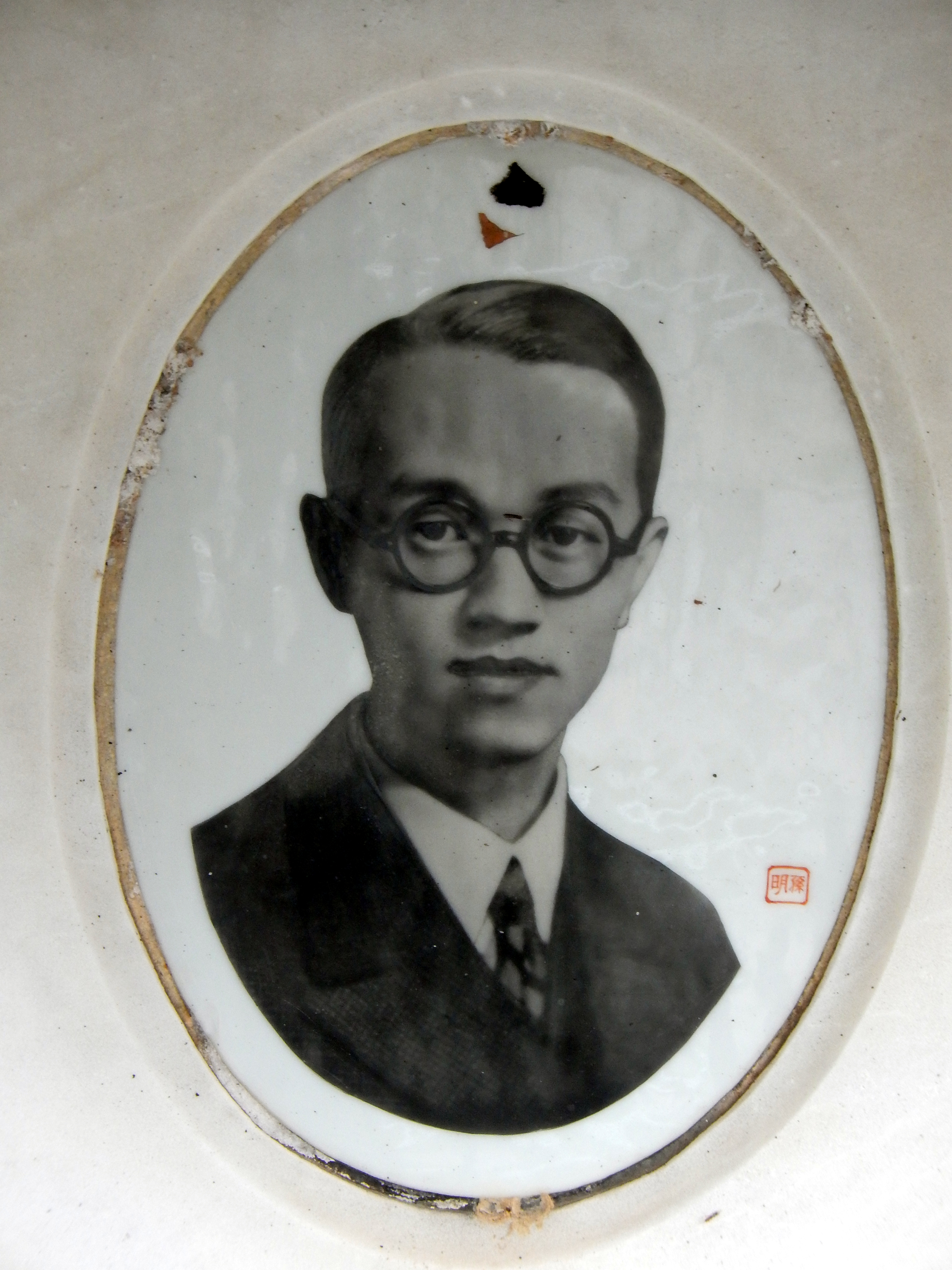 Tombstone portrait of Jack Yung CHANG, second son of Zhang Shizhao